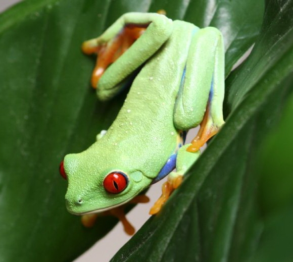 Agalychnis callidryas